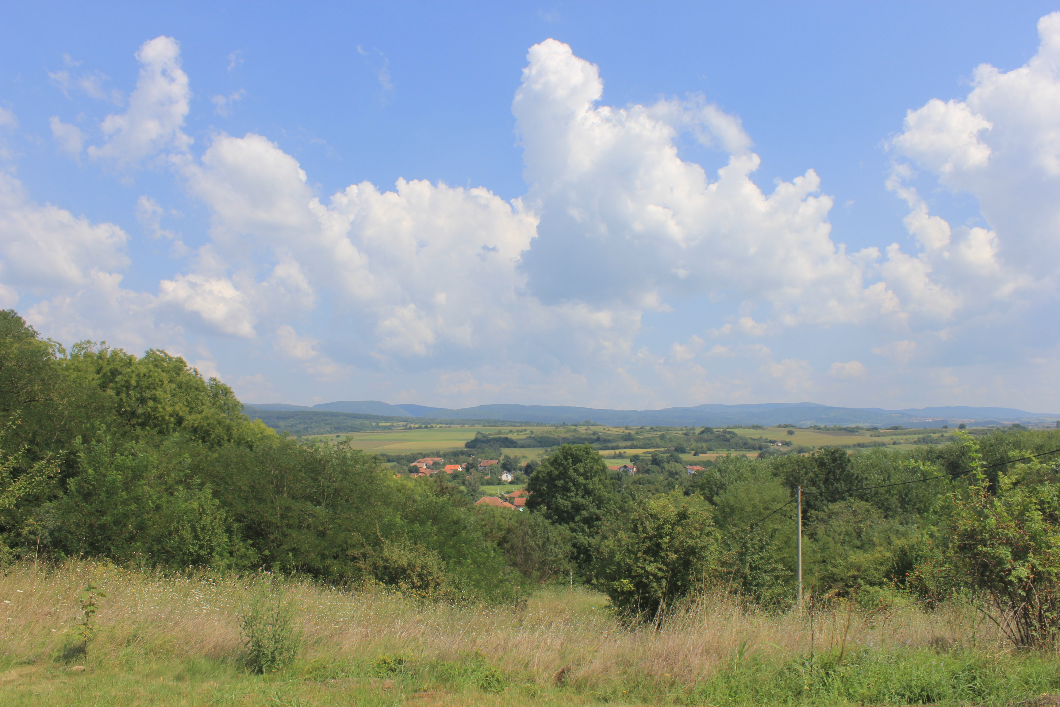 The landscape and overlook on cliff of hill where was battle of Ivankovac in August 1805